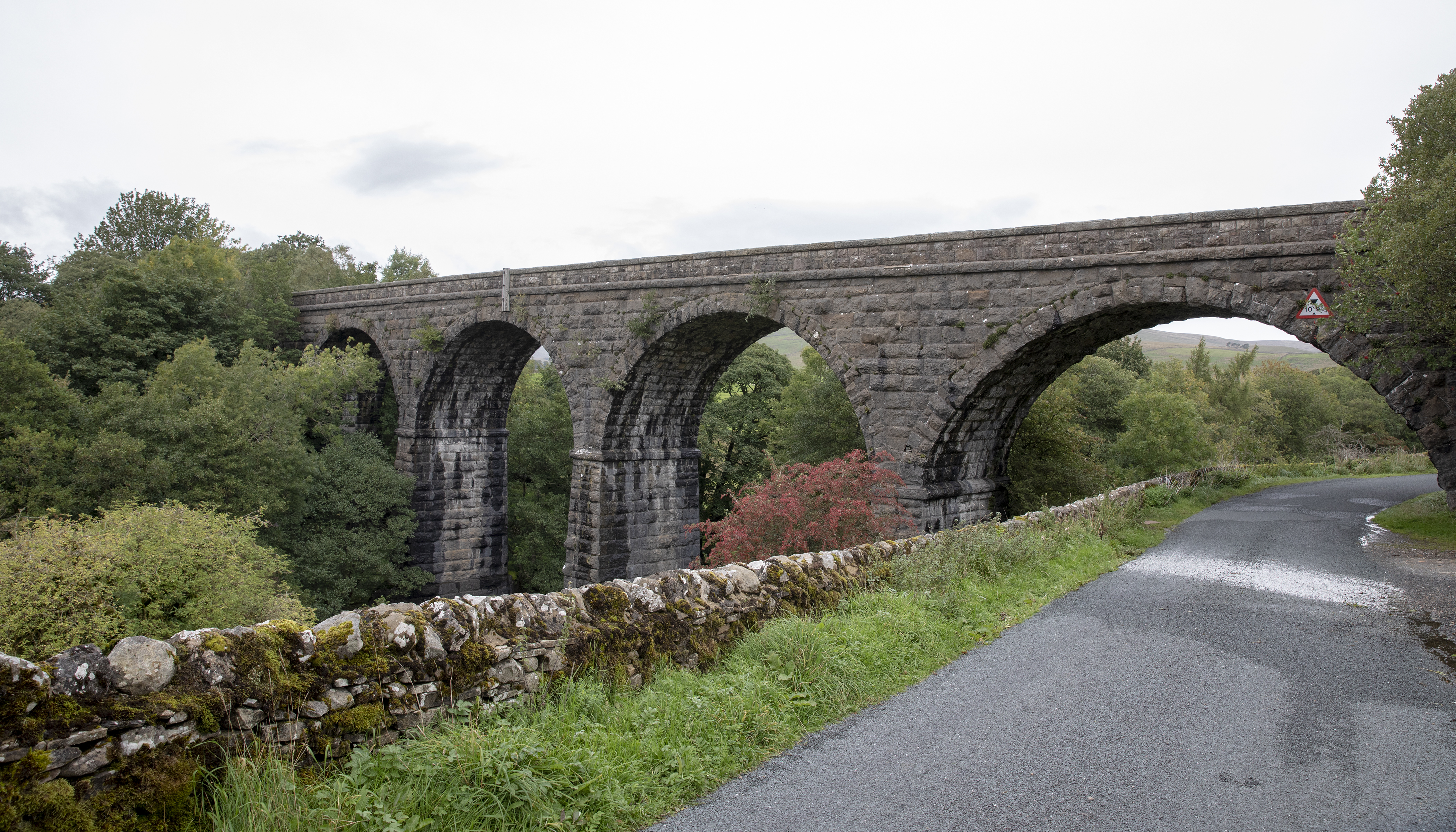 Appersett Viaduct Wikidata has entry Q26603159 with data related to this item.